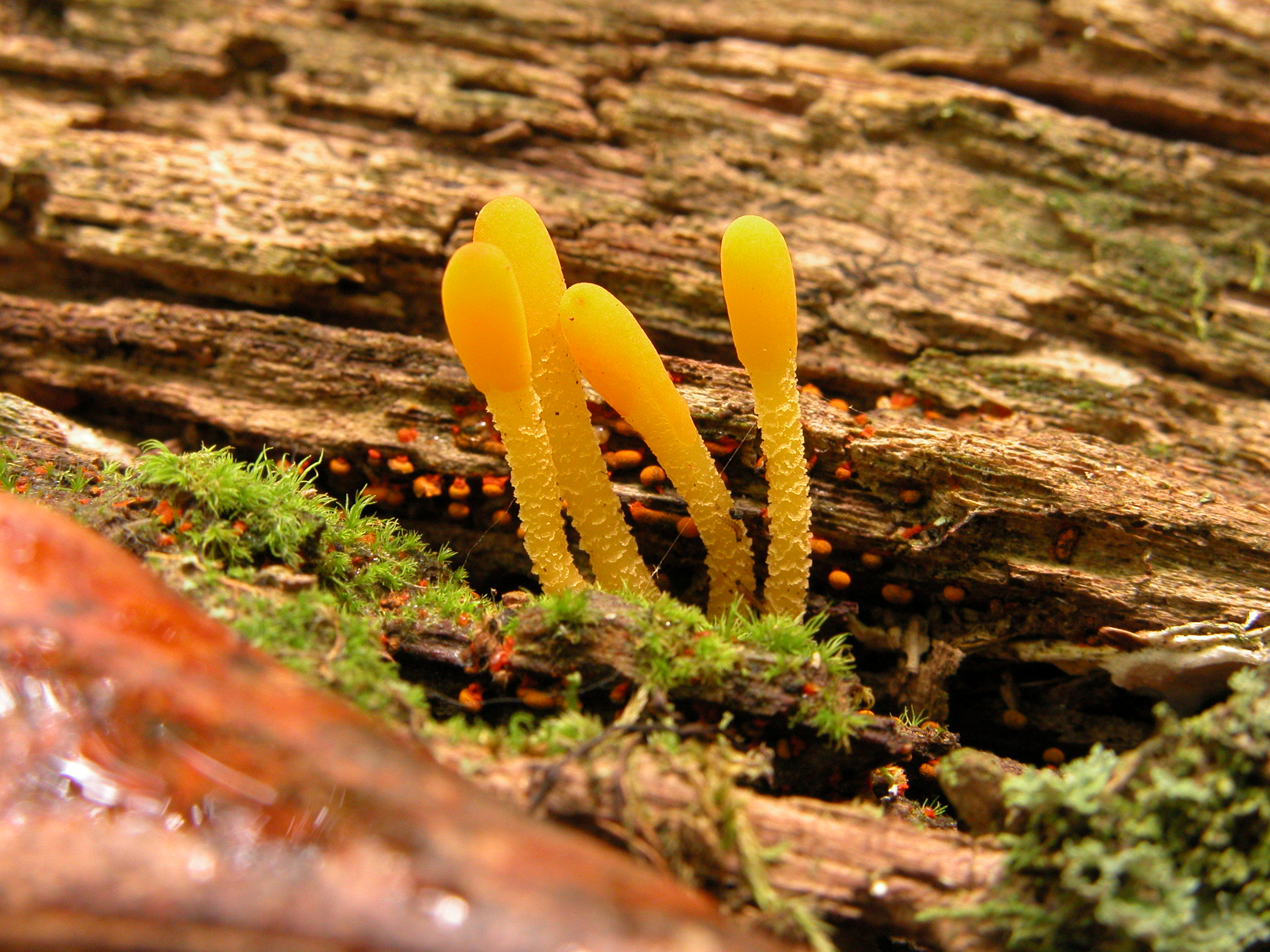 Microglossum rufum (Schwein.) Underw. Notas: Found during the 2004 NAMA foray to Asheville, North Carolina. Identified using Mushrooms of West Virginia and the Central Appalachians by William Roody.